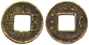 23.5 mm Obv. Wu Chu Rev. Right: Moon Left: 3 Stars Meaning: Ref.: Section 1.9: "Charms with coin inscriptions: Wu Chu". WU CHU coins were issued in many varieties form 118 b.c. to the VII century a.d. Most varieties cannot be dated exactly.